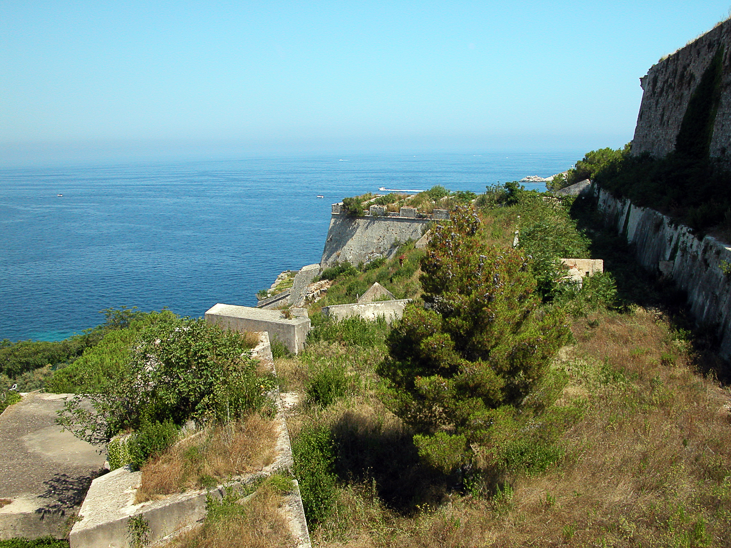 View from the Medicis fortifications at Portoferraio